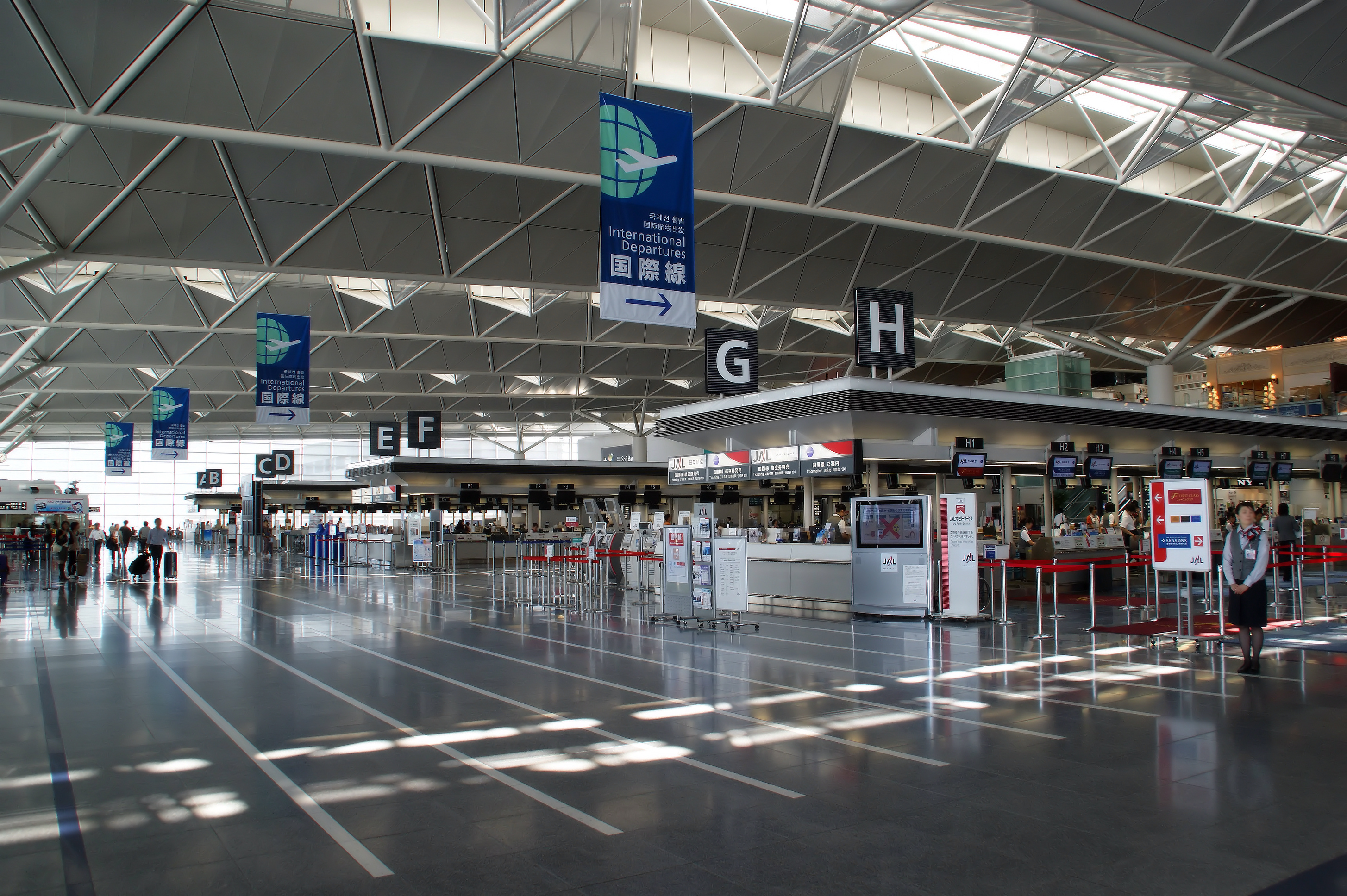 Check-in Counter of Chubu Centrair International Airport. (Tokoname City, Aichi Prefecture, Japan)